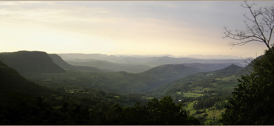 Quilombo Valley, Gramado, Brazil.